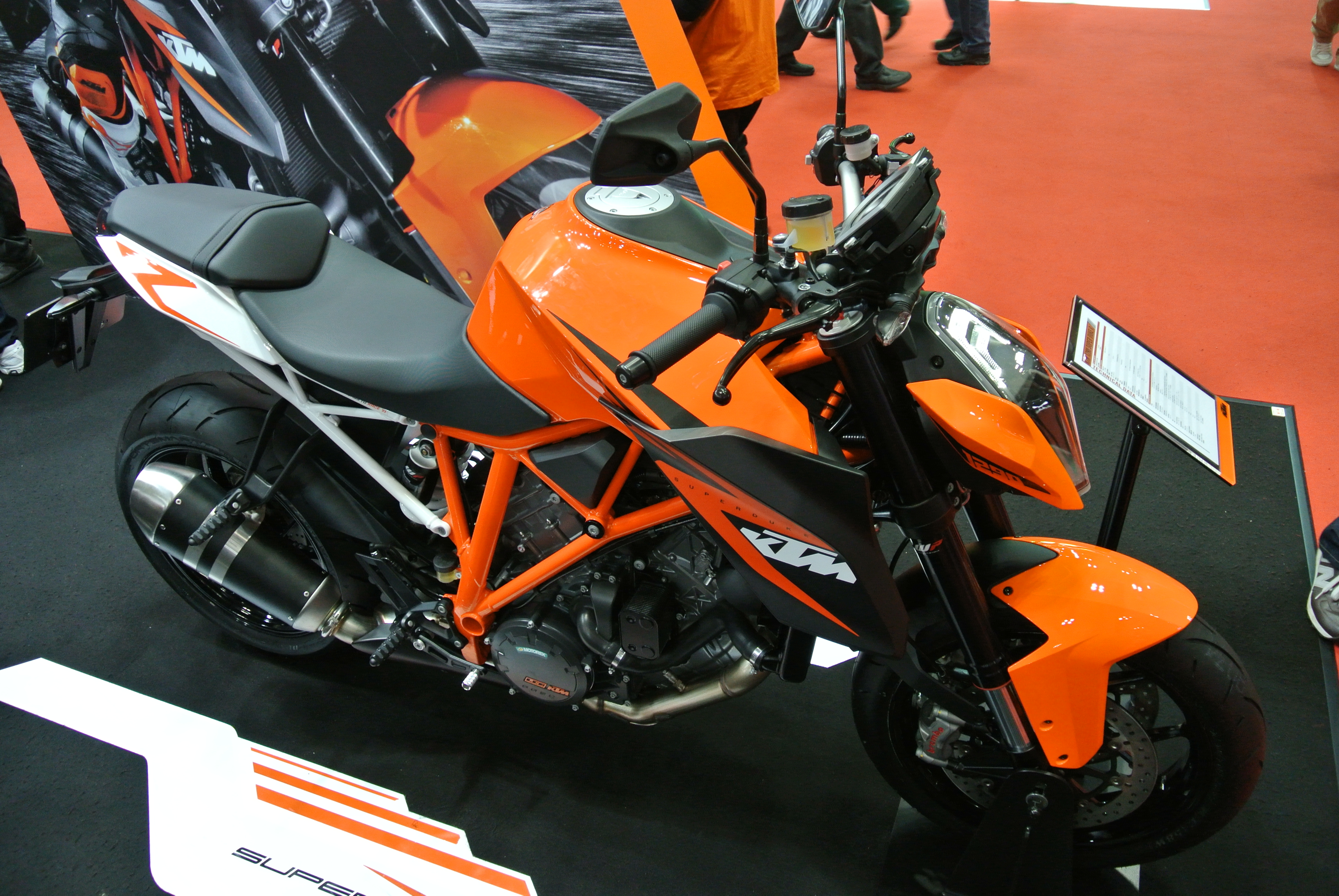 Ktm 1290 SUPER DUKE R at 43rd Tokyo Motor Show 2013.